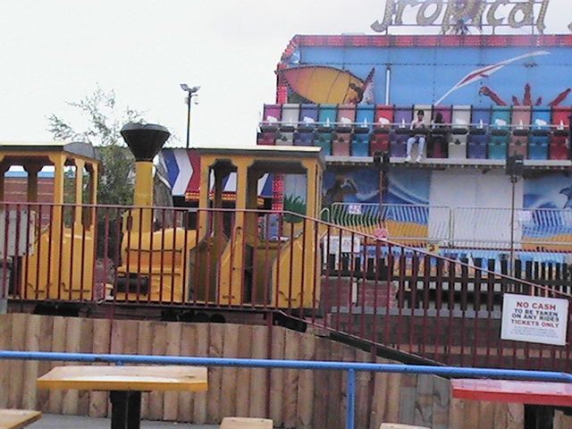 BIPP other rides